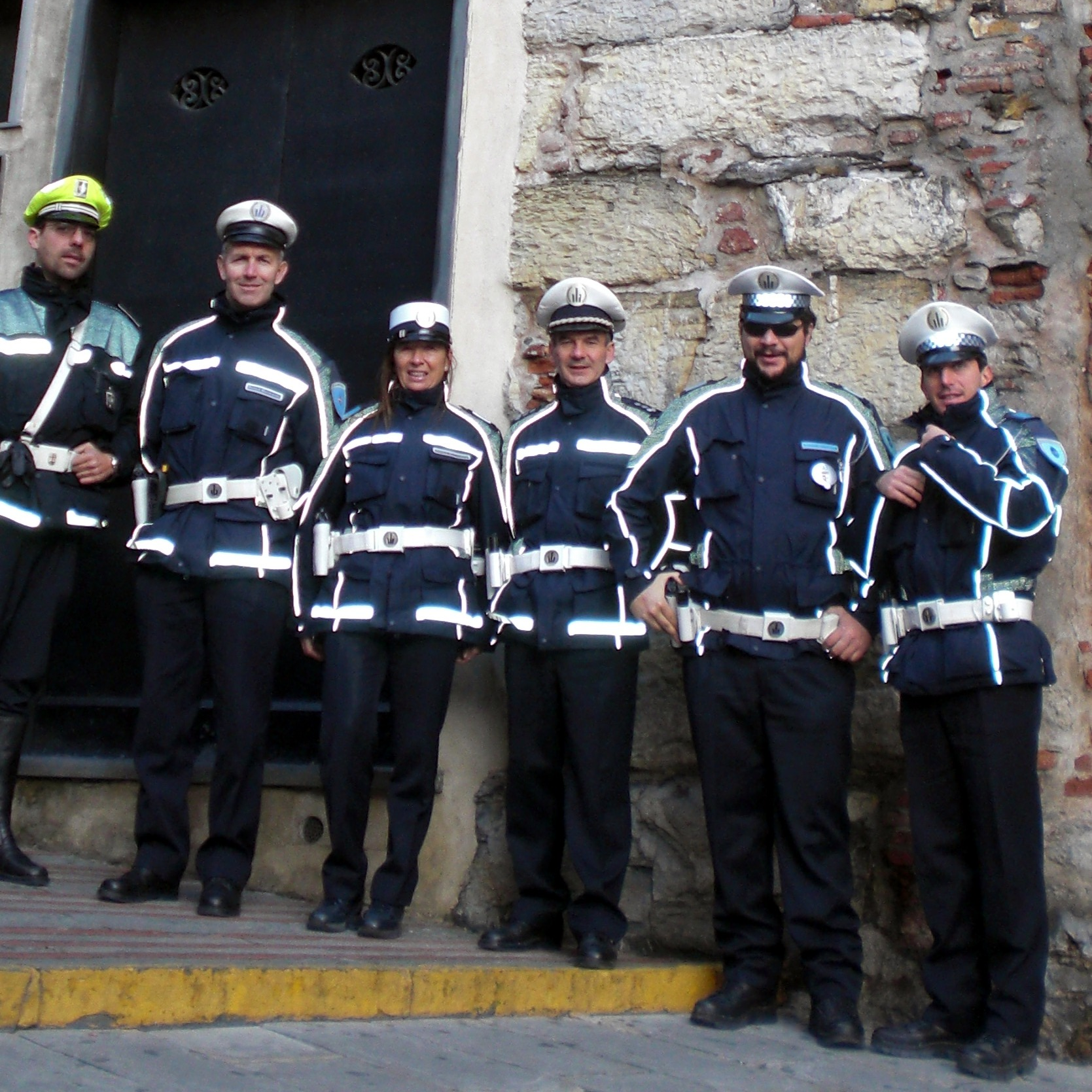 Officers of the Piacenza Municipal Police (Italy)